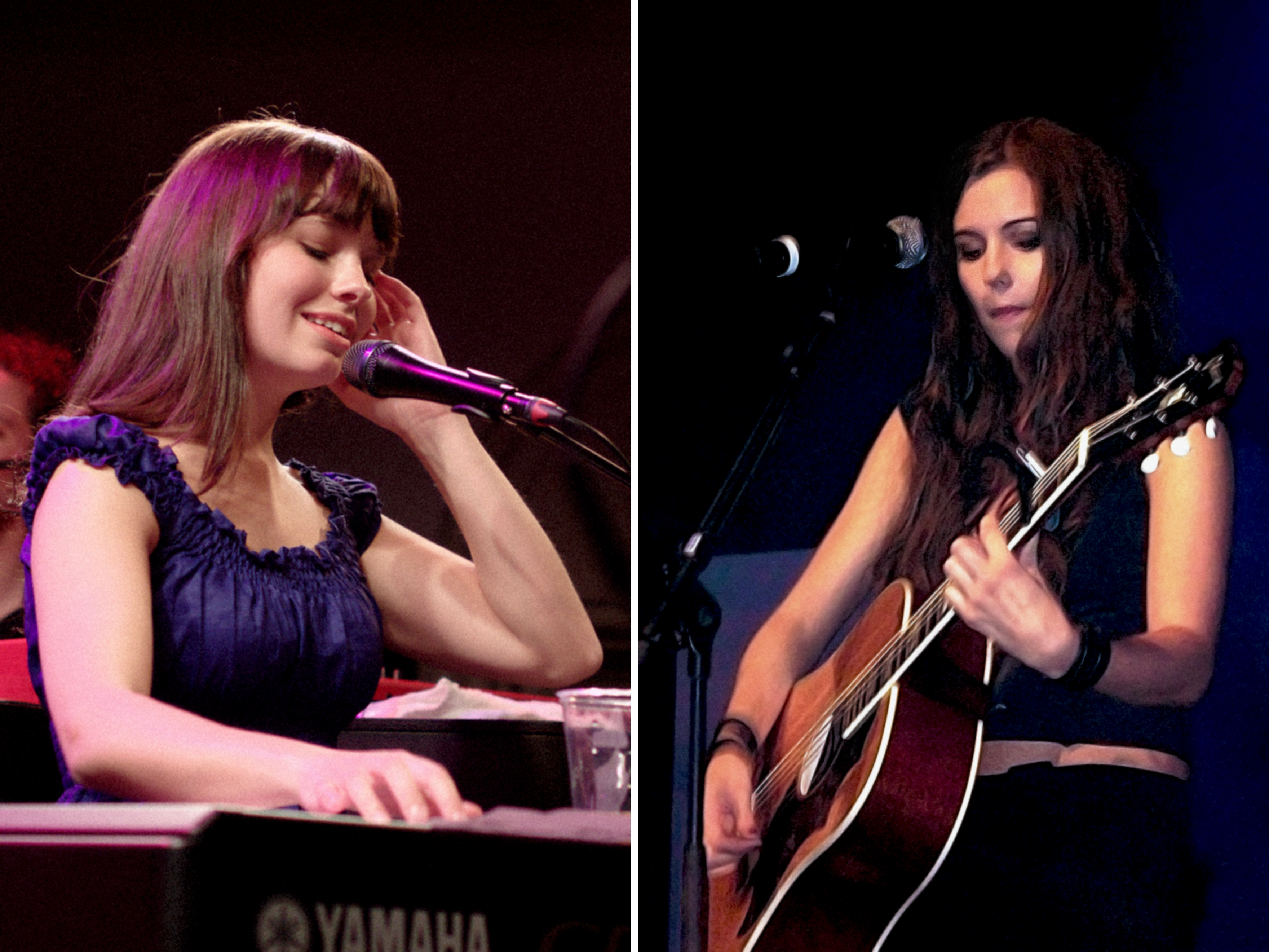 Marit Larsen in 2009 (left) and Marion Raven in 2007 (right)